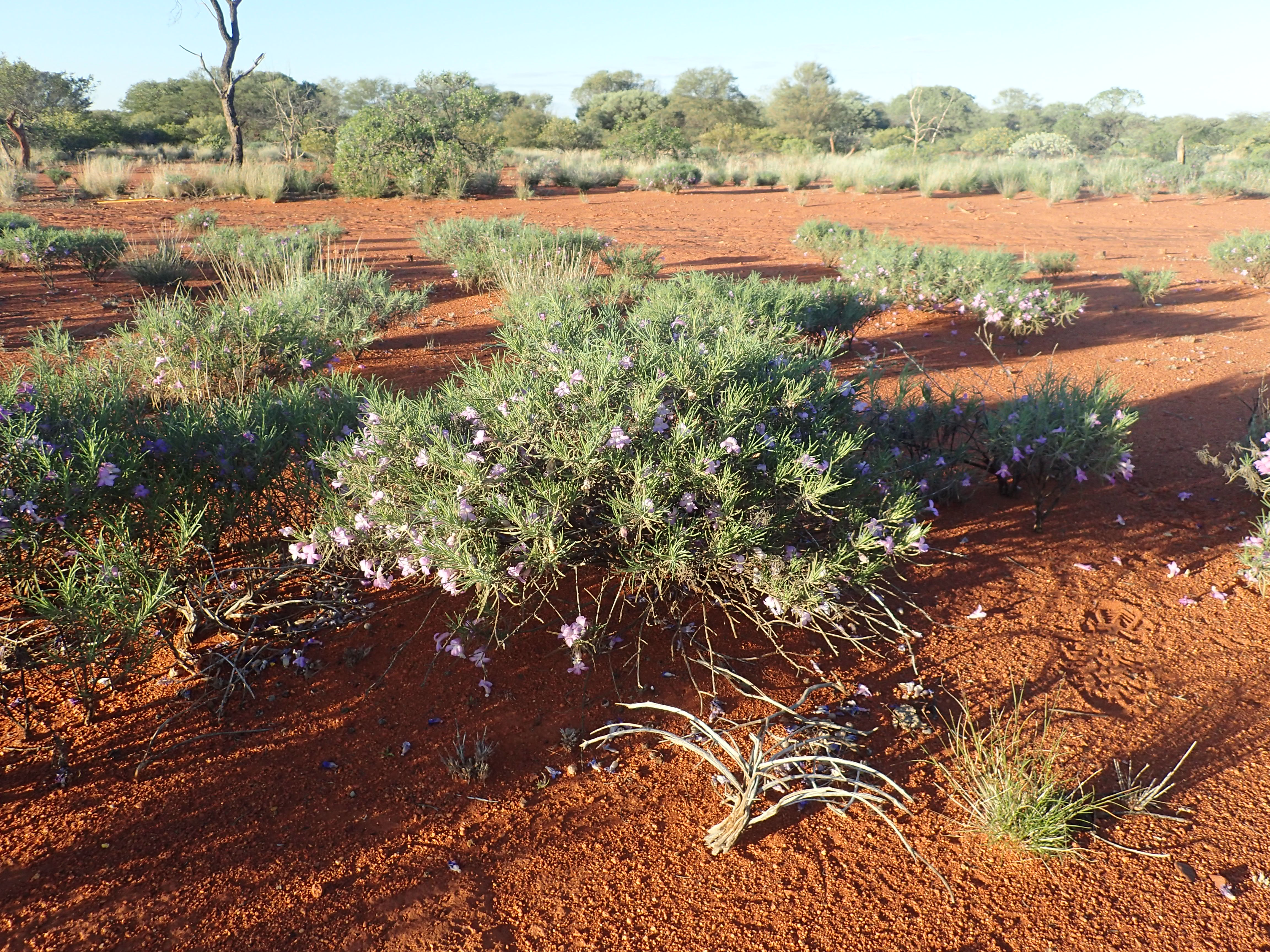 Eremophila foliosissima growing near the Great Northern Highway, 3km south of the Middle Gascoyne River bridge